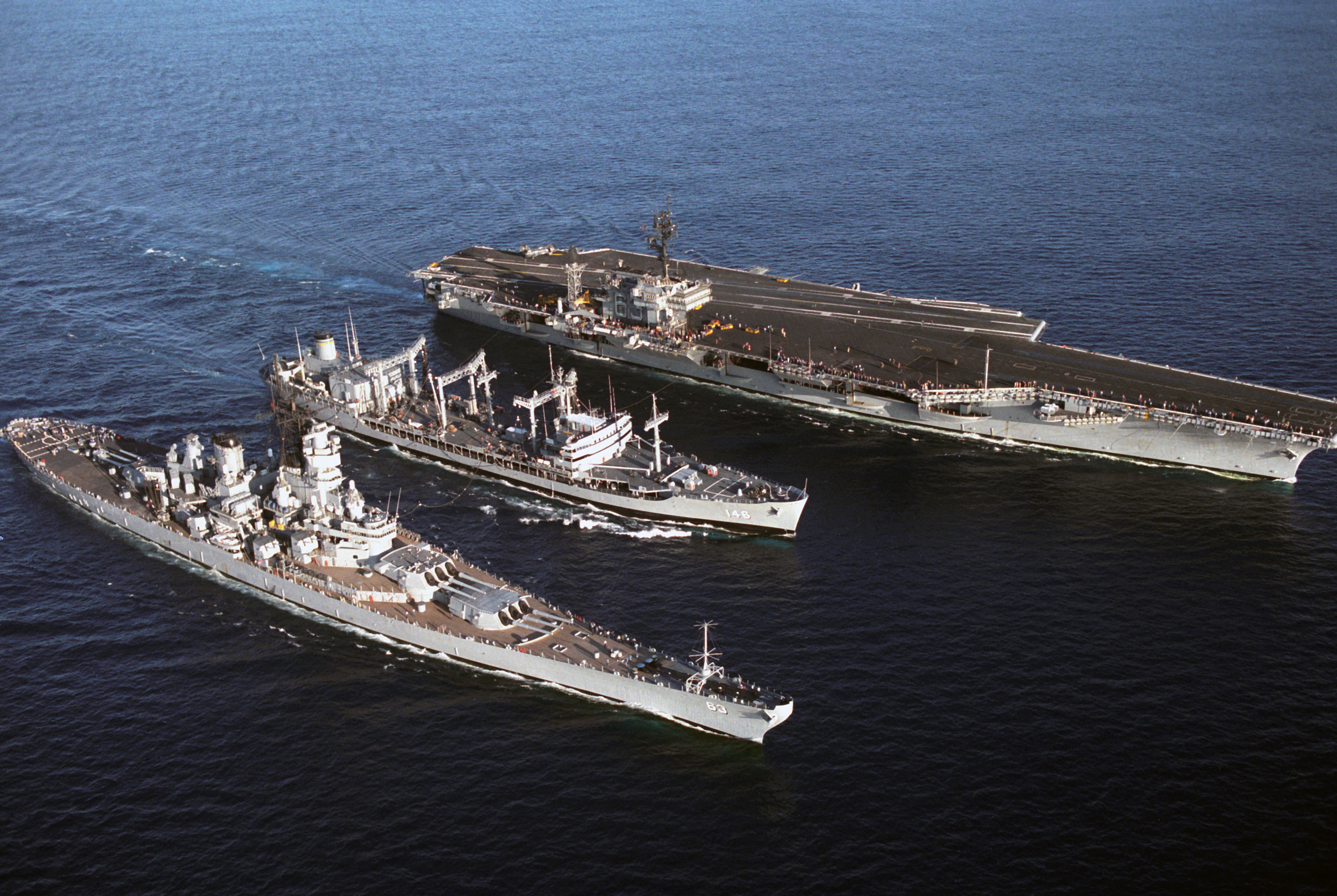 The U.S. Military Sealift Command oiler USNS Kawishiwi (T-AO-146), center, replenishing the U.S. Navy battleship USS Missouri (BB-63) and the aircraft carrier USS Kitty Hawk (CV-63) on 25 July 1986.